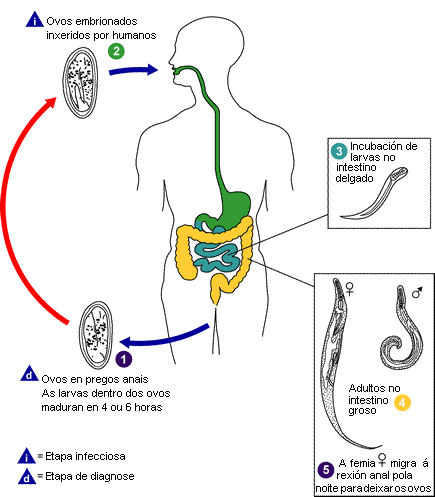 Enterobiasis [Enterobius vermicularis] Life cycle of Enterobius vermicularis Eggs are deposited on perianal folds. Self-infection occurs by transferring infective eggs to the mouth with hands that have scratched the perianal area. Person-to-person transmission can also occur through handling of contaminated clothes or bed linens. Enterobiasis may also be acquired through surfaces in the environment that are contaminated with pinworm eggs (e.g., curtains, carpeting). Some small number of eggs may become airborne and inhaled. These would be swallowed and follow the same development as ingested eggs. Following ingestion of infective eggs, the larvae hatch in the small intestine and the adults establish themselves in the colon. The time interval from ingestion of infective eggs to oviposition by the adult females is about one month. The life span of the adults is about two months. Gravid females migrate nocturnally outside the anus and oviposit while crawling on the skin of the perianal area . The larvae contained inside the eggs develop (the eggs become infective) in 4 to 6 hours under optimal conditions. Retroinfection, or the migration of newly hatched larvae from the anal skin back into the rectum, may occur but the frequency with which this happens is unknown.